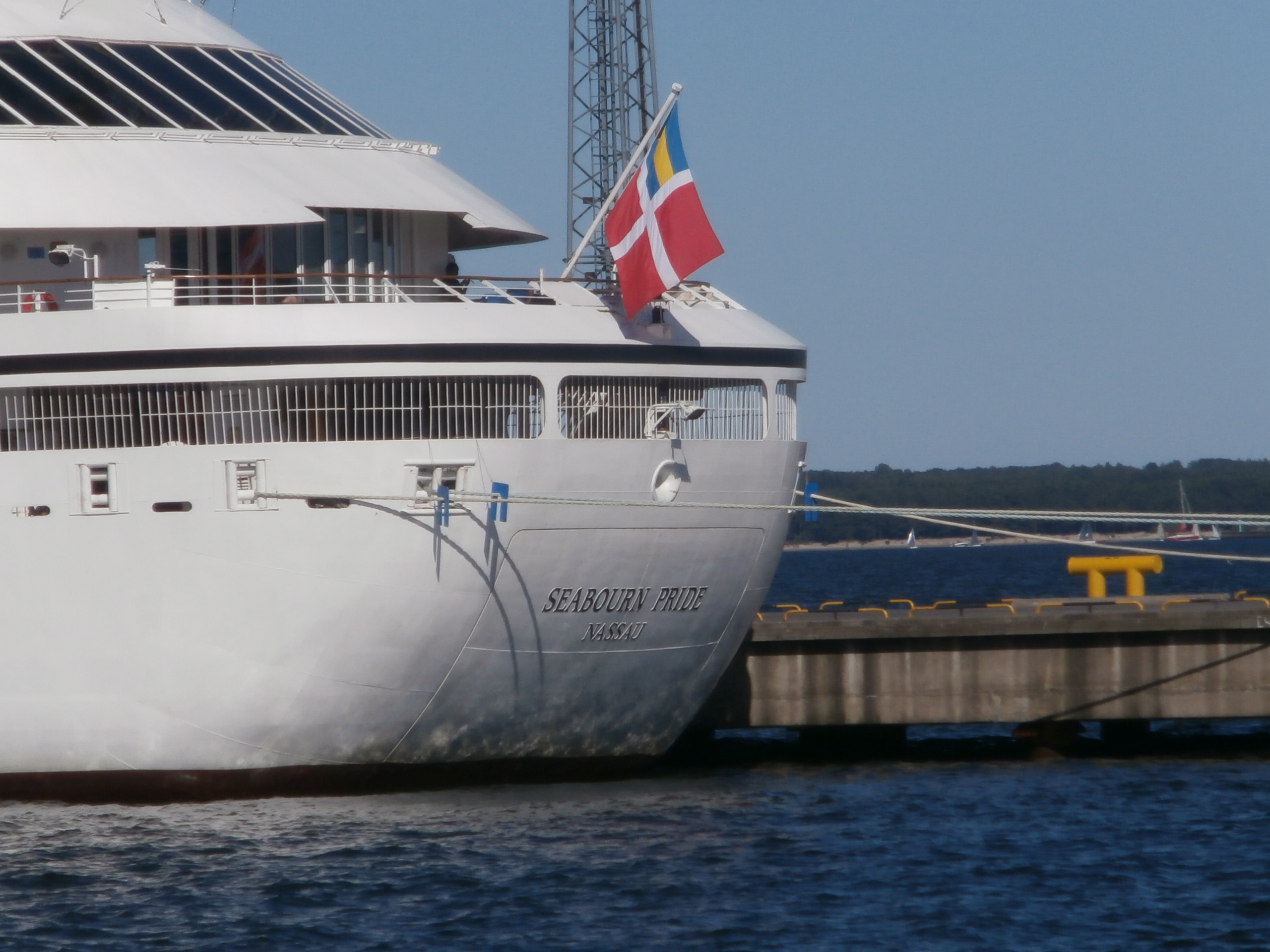 Seabourn Pride Flag Pier 24 Tallinn 25 August 2013